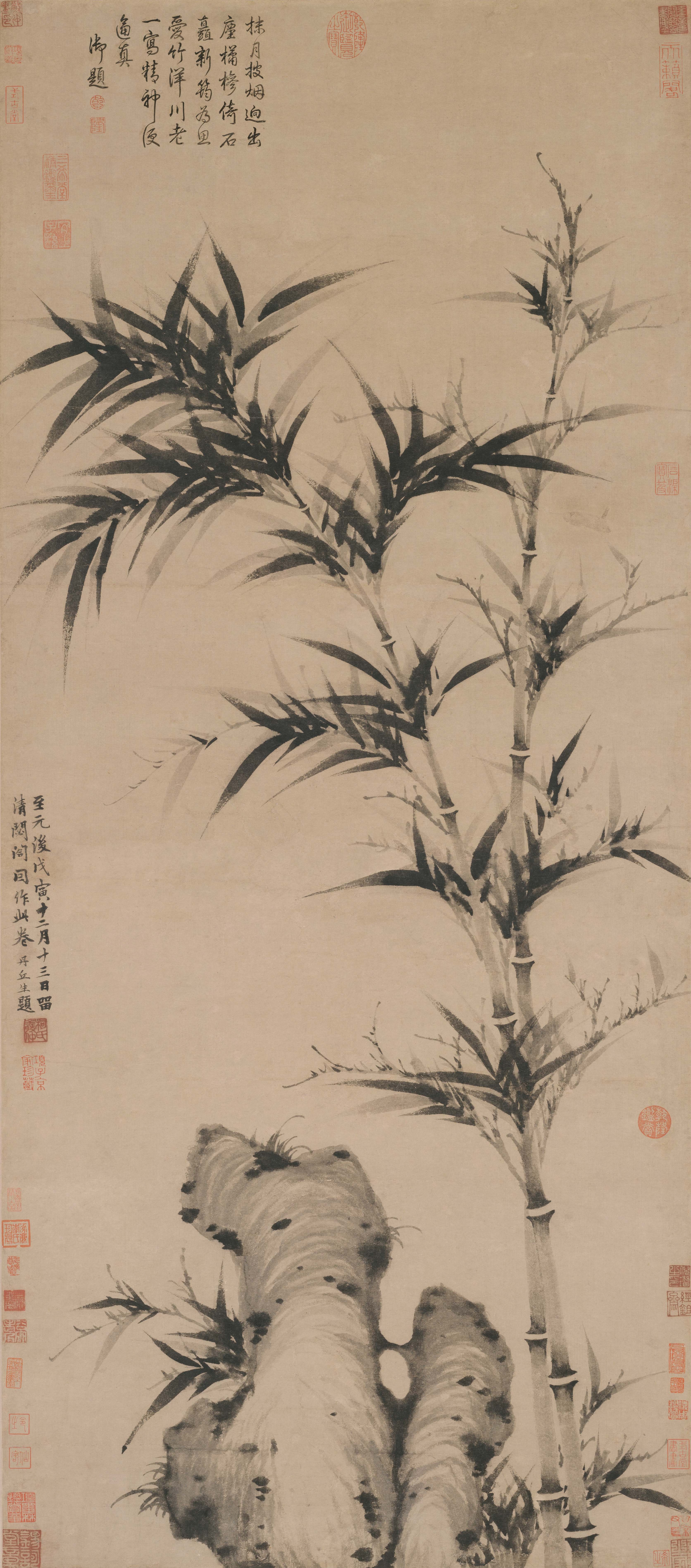 Ke Jiusi, Bamboo at Qingbige Pavillion, Dated 1338. The Palace Museum, Beijing.